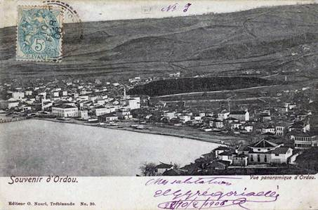 Ordu city, at1900's